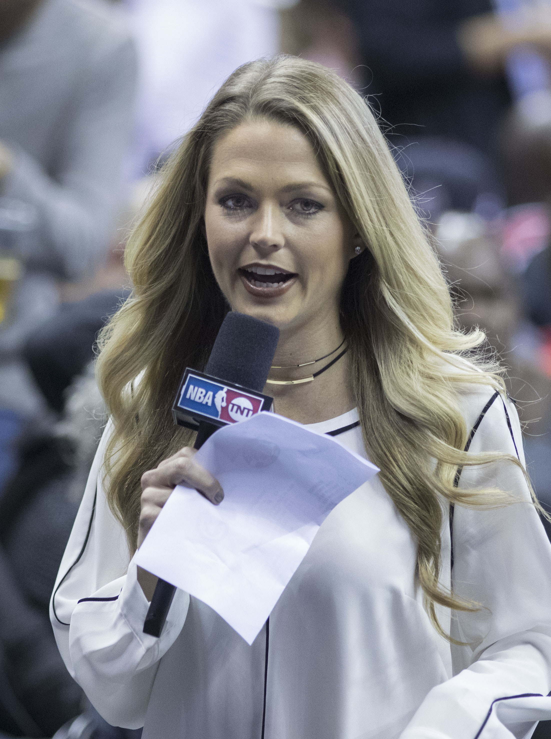 Hawks at Wizards 4/26/17